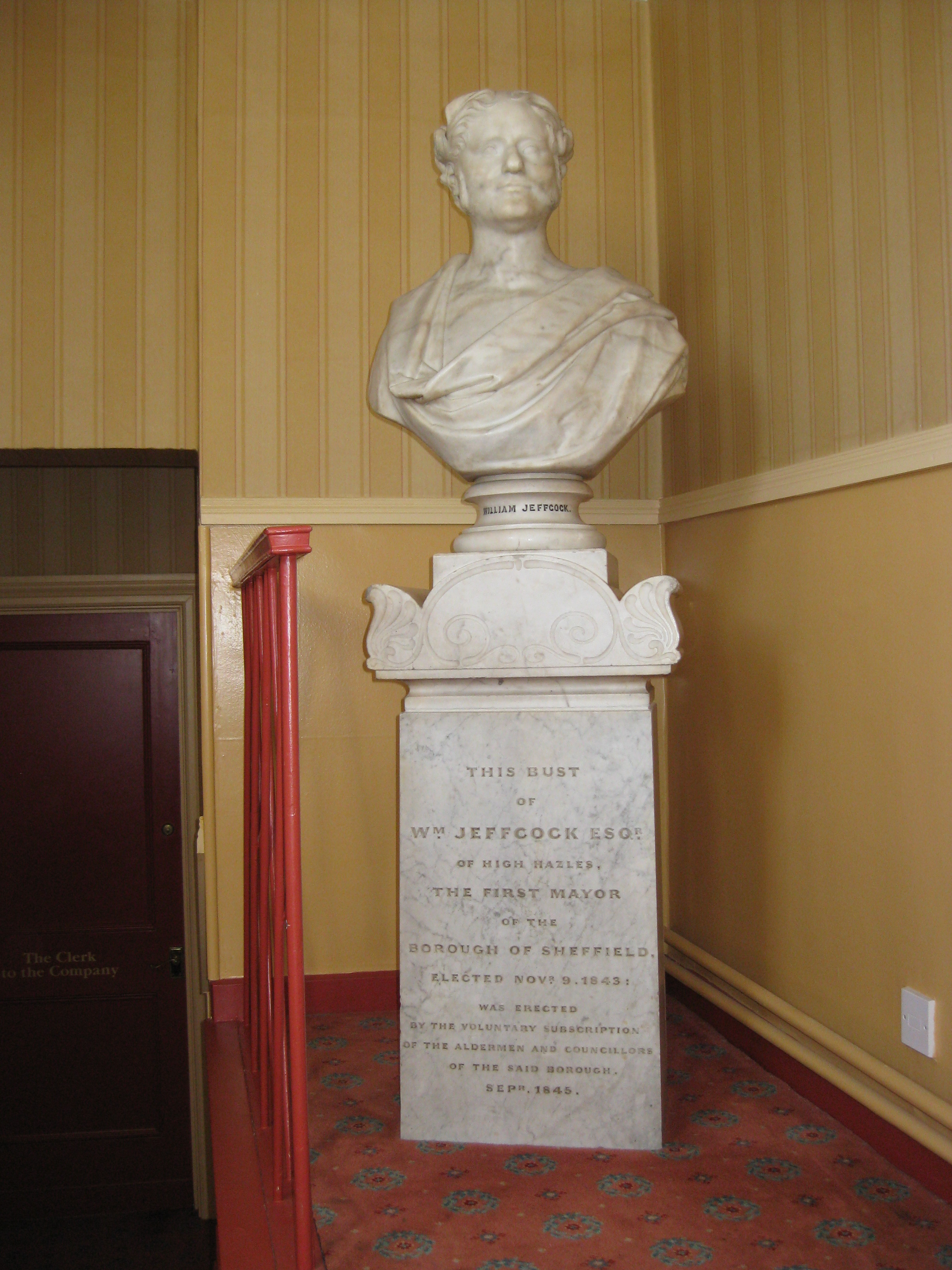 William Jeffcock, first mayor of Sheffield. Bust dated 1845 in the Cutler's Hall